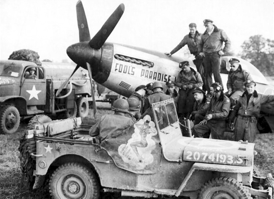 Major Evan Mc Call's P-51D A9-A, 44-13309, 'Fools Paradise IV' of 380th FS, 363rd FG.